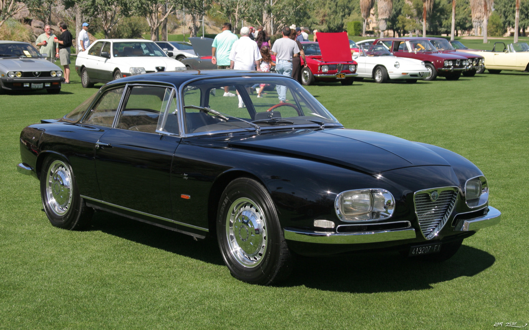 Palm Springs Desert Classic Concours d'Elegance, March 01, 2009